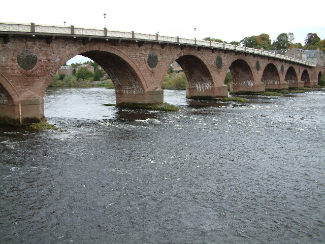 Old Bridge over the Tay